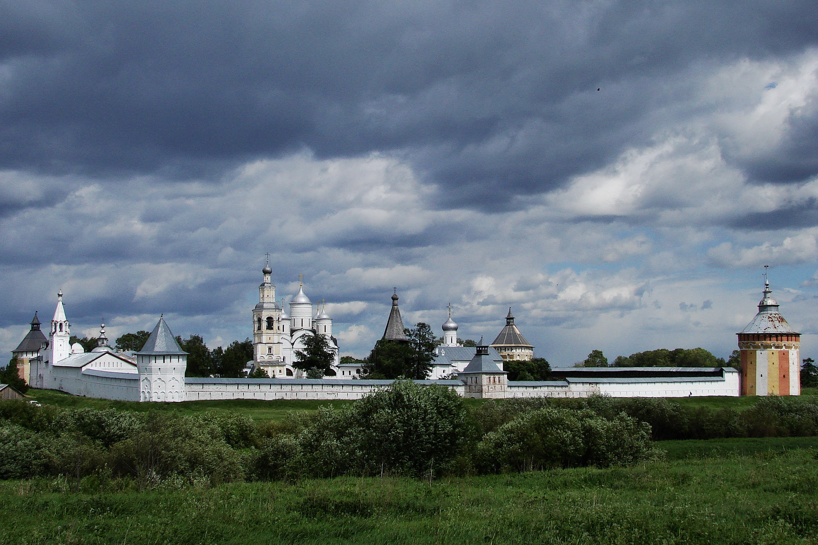 Russia, Vologda, Spaso-Prilutsky Monastery